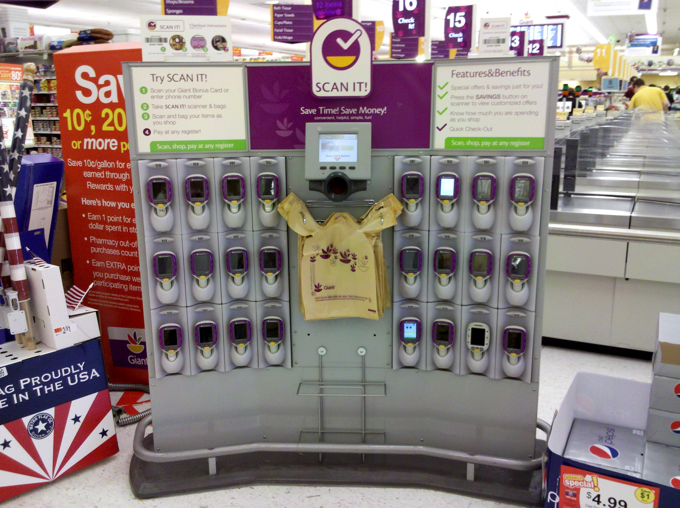 "Scan It" self-checkout kiosk at Giant Food store in Wheaton, Maryland. Customers use this kiosk to scan their bonuscard and then collect a scanner and bags. Bagging is done as the customer scans it in the store.